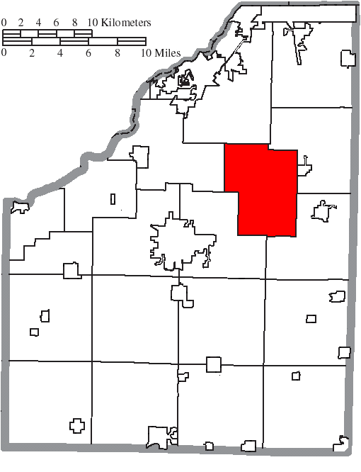 Map of the municipal and township boundaries of Wood County, Ohio, United States, as of the 2000 census, with the location of Webster Township highlighted. Township borders are shown only in unincorporated areas in order to differentiate incorporated and unincorporated areas more clearly.